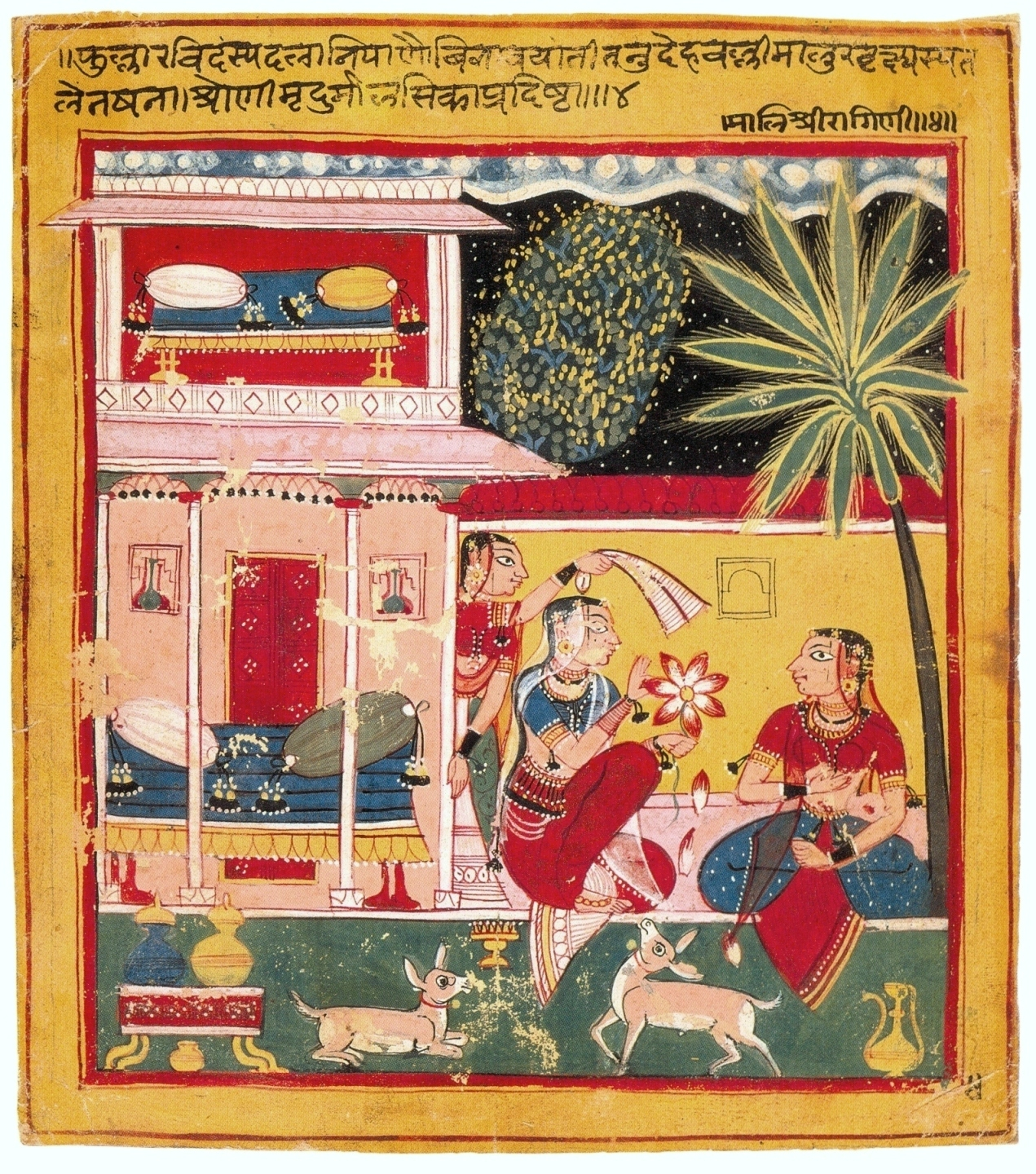 Nasiruddin. Malashri ragini. Page from Chawand Ragamala series. Chawand, Mewar, Rajasthan. dated 1605(inscribed, Painted Nasiruddin at Chawand in 1605). LACMA